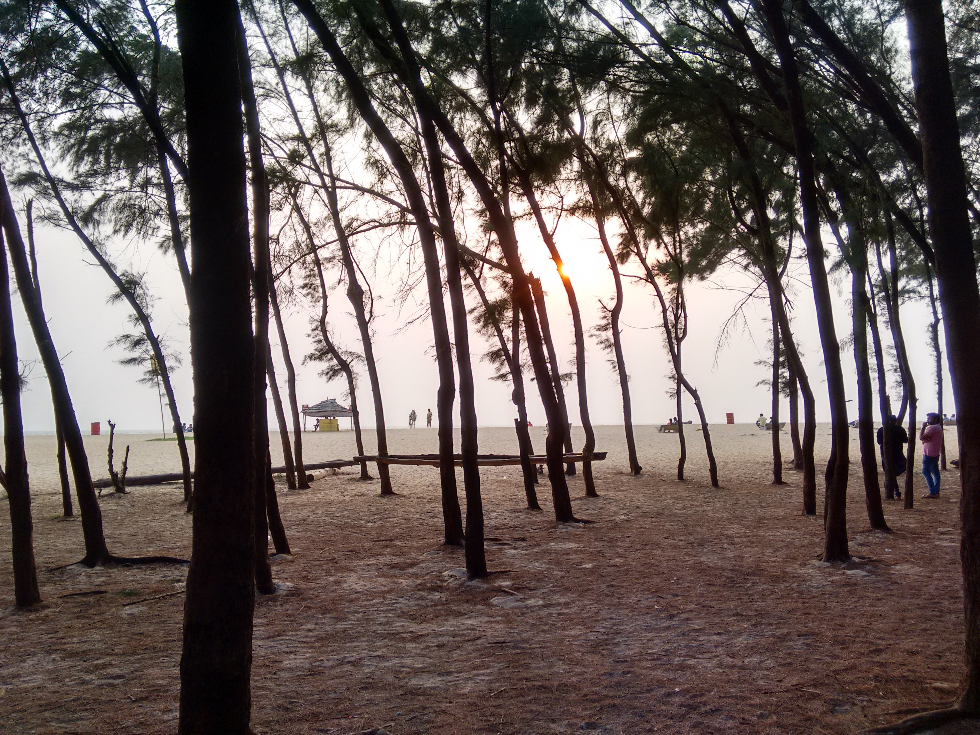 Tannirbhavi Beach, Mangalore. Accessed taking a small boat from main city